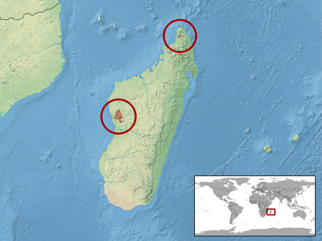 geographic distribution of Paroedura homalorhina (Native: Madagascar)